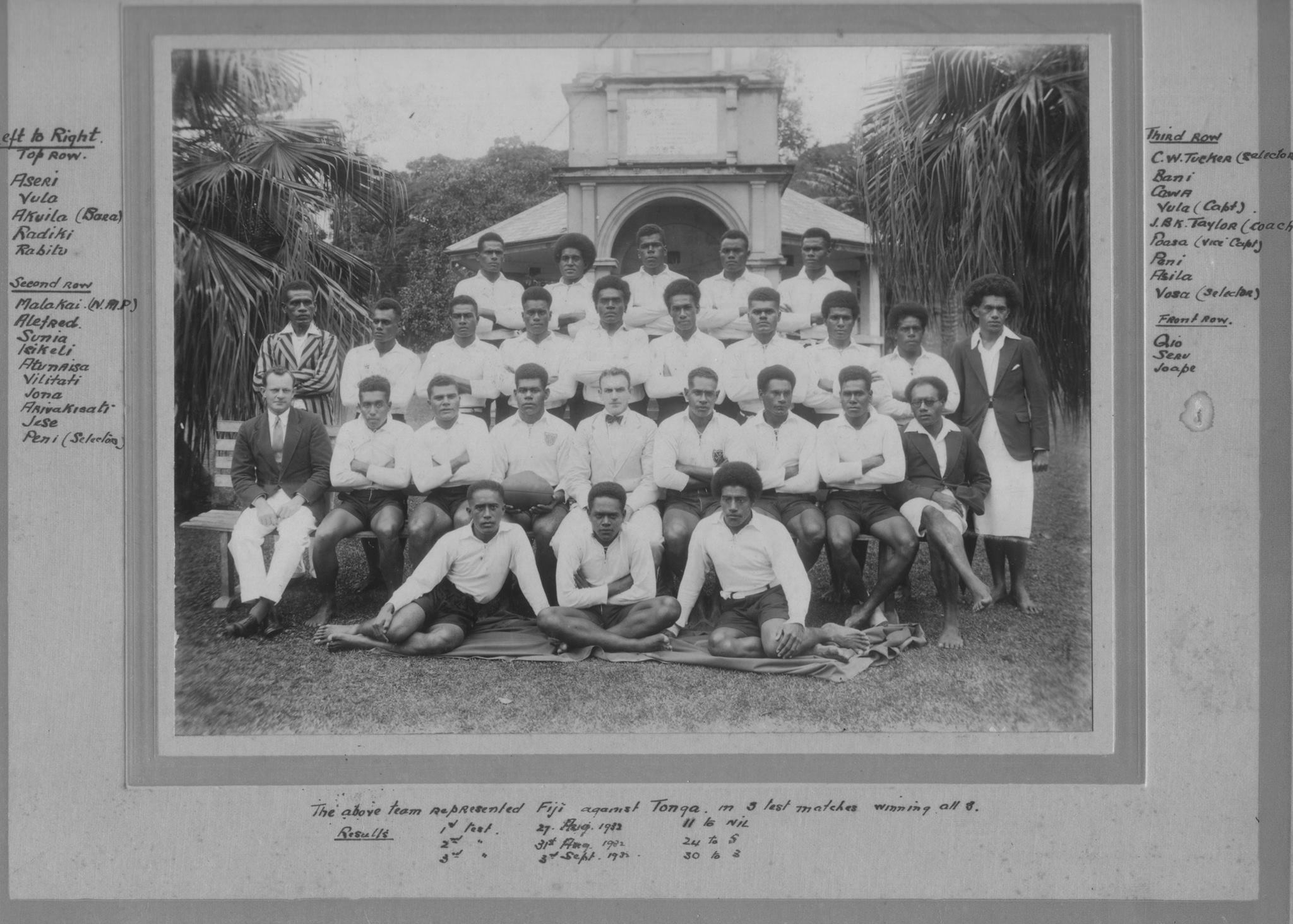 1932 - winners of all three home Tests v Tonga